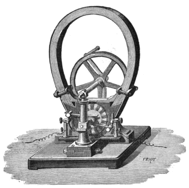 Drawing of a Gramme dynamo, an electrical generator designed by Belgian inventor Zénobe Gramme in 1871. It was the first machine to be used industrially to generate power. His innovation was to use many armature windings (30 in this machine), wound on a doughnut shaped armature, and switched with a many segmented commutator, to smooth the output waveform, producing nearly constant DC power. This drawing shows a hand cranked model from the 1870s used widely in laboratories, text says it's output was equivalent to "eight ordinary Bunsen elements [batteries]". It used laminated permanent magnets invented by Jamin.